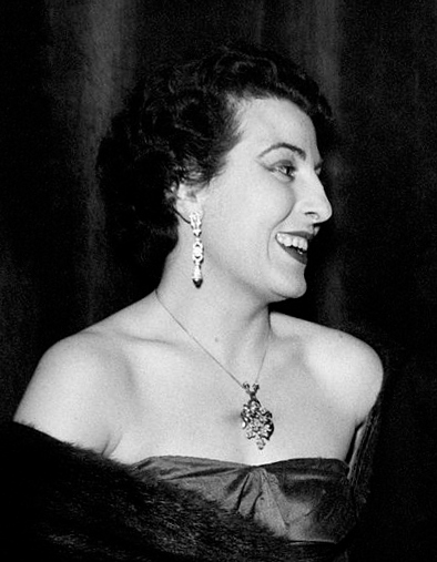 Italian singer Gianni Ravera at the 5th Sanremo Music Festival. Sanremo, January 1955